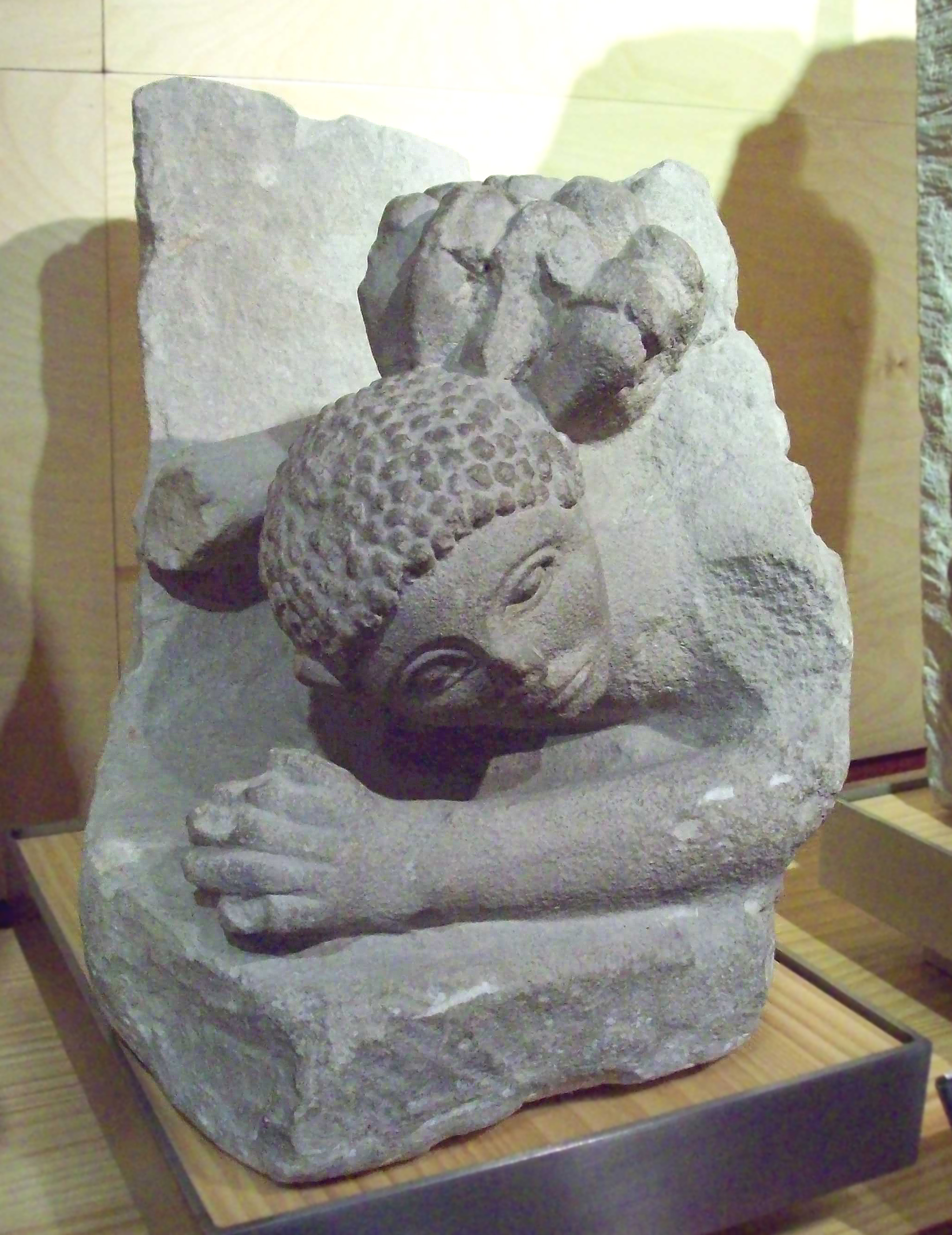 An Iberian high-relief representing a black man trapped by a feline's claw.. This piece is part of the Group B of the Sculptures of Osuna.